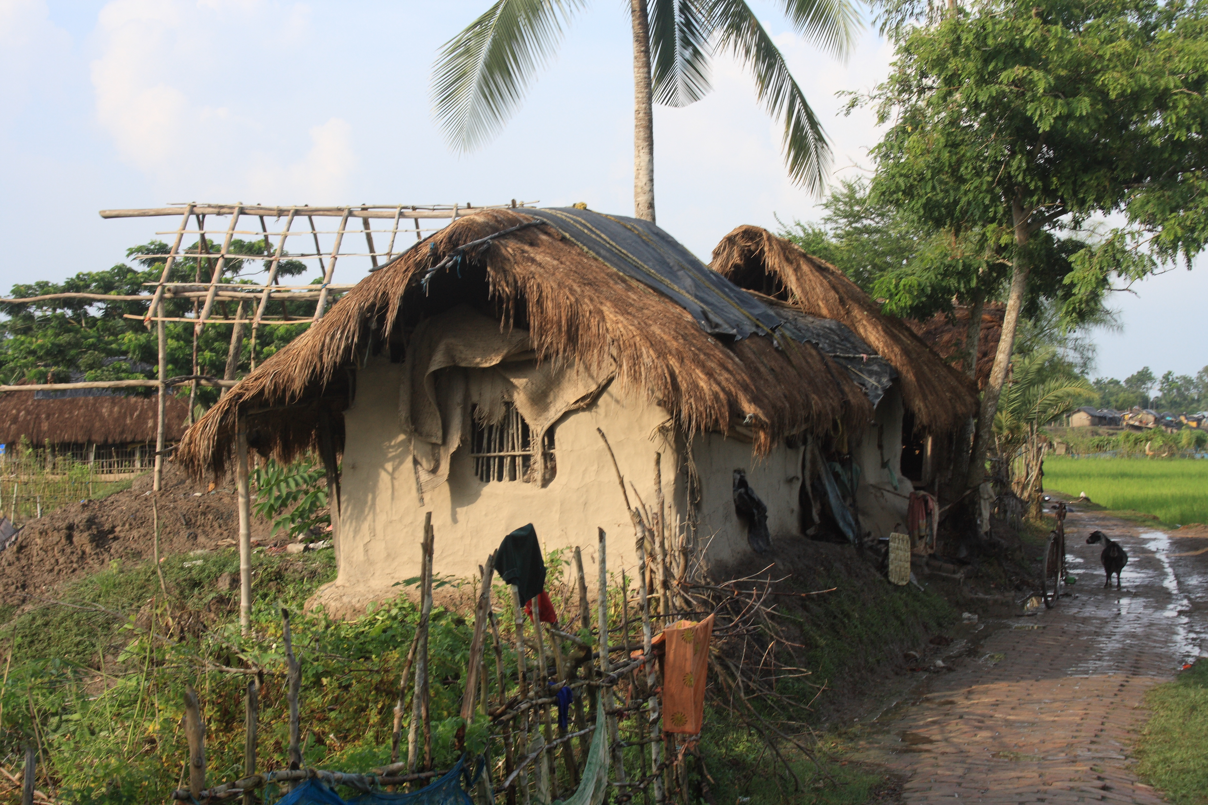 A mud farm house on an island in the ganges delta, sunderban area, India.